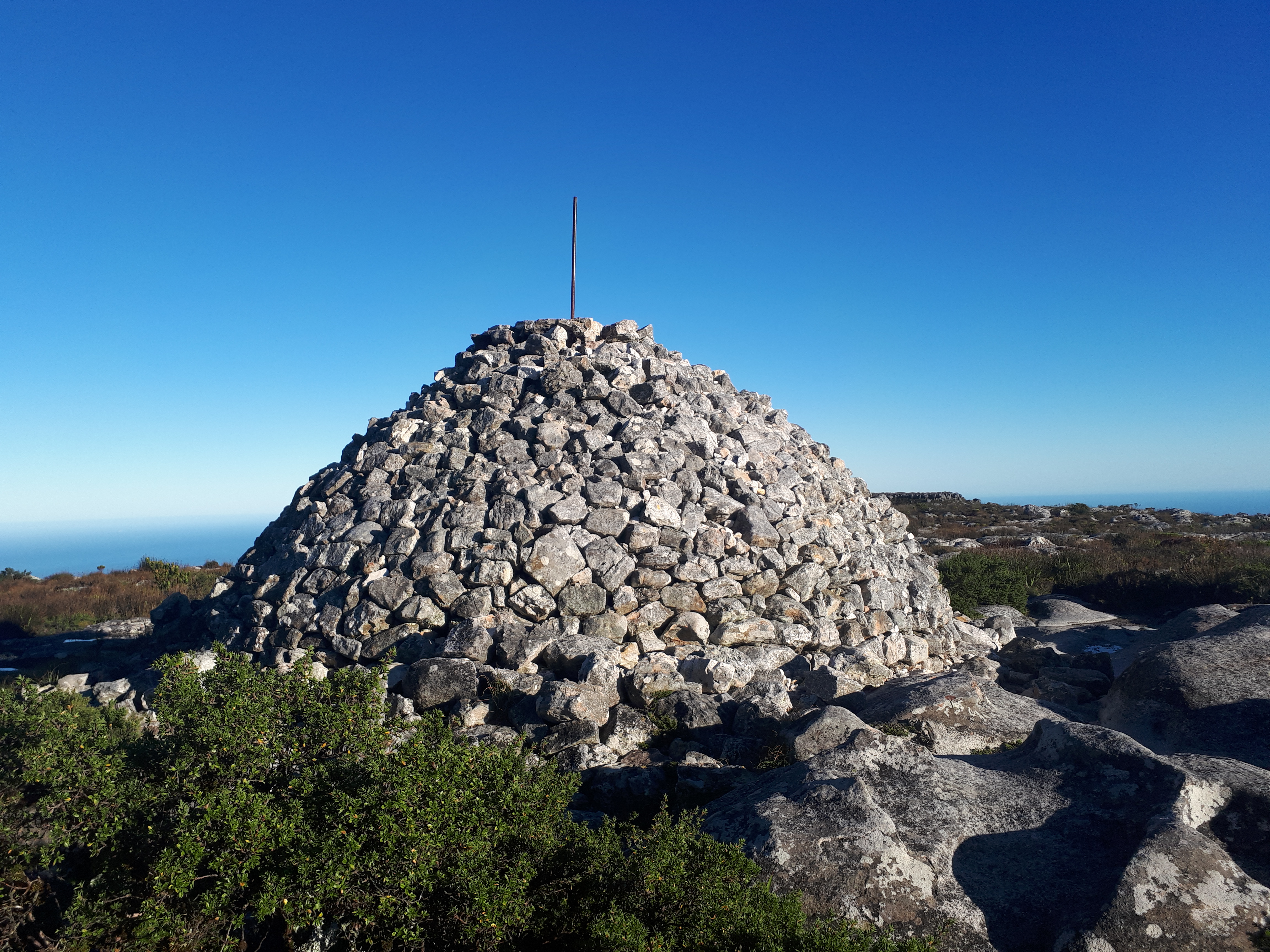 Maclears' Beacon